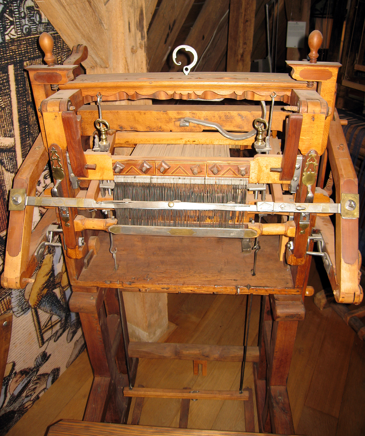 Historical loom for the knitting of socks.